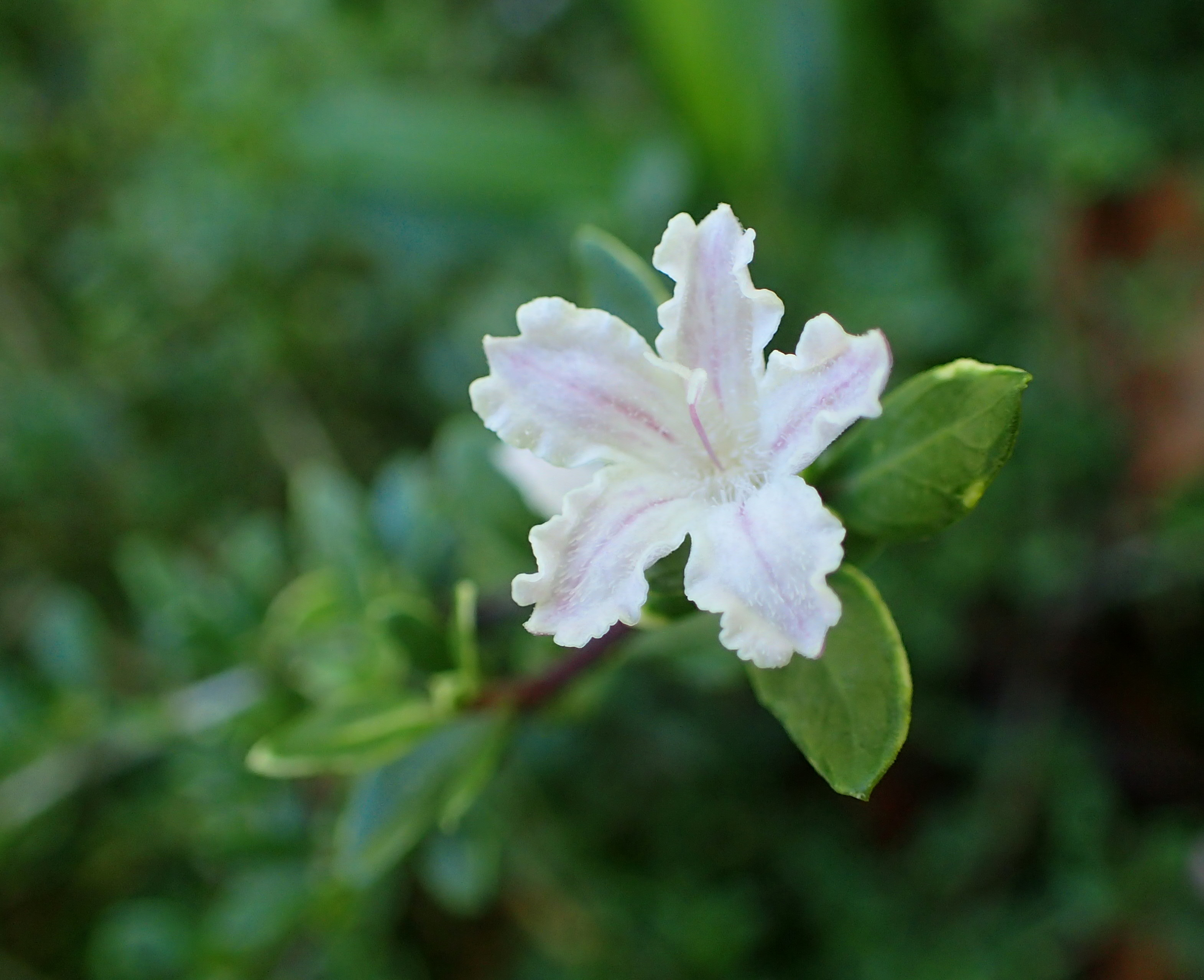 Serissa japonica in botanical garden in Batumi